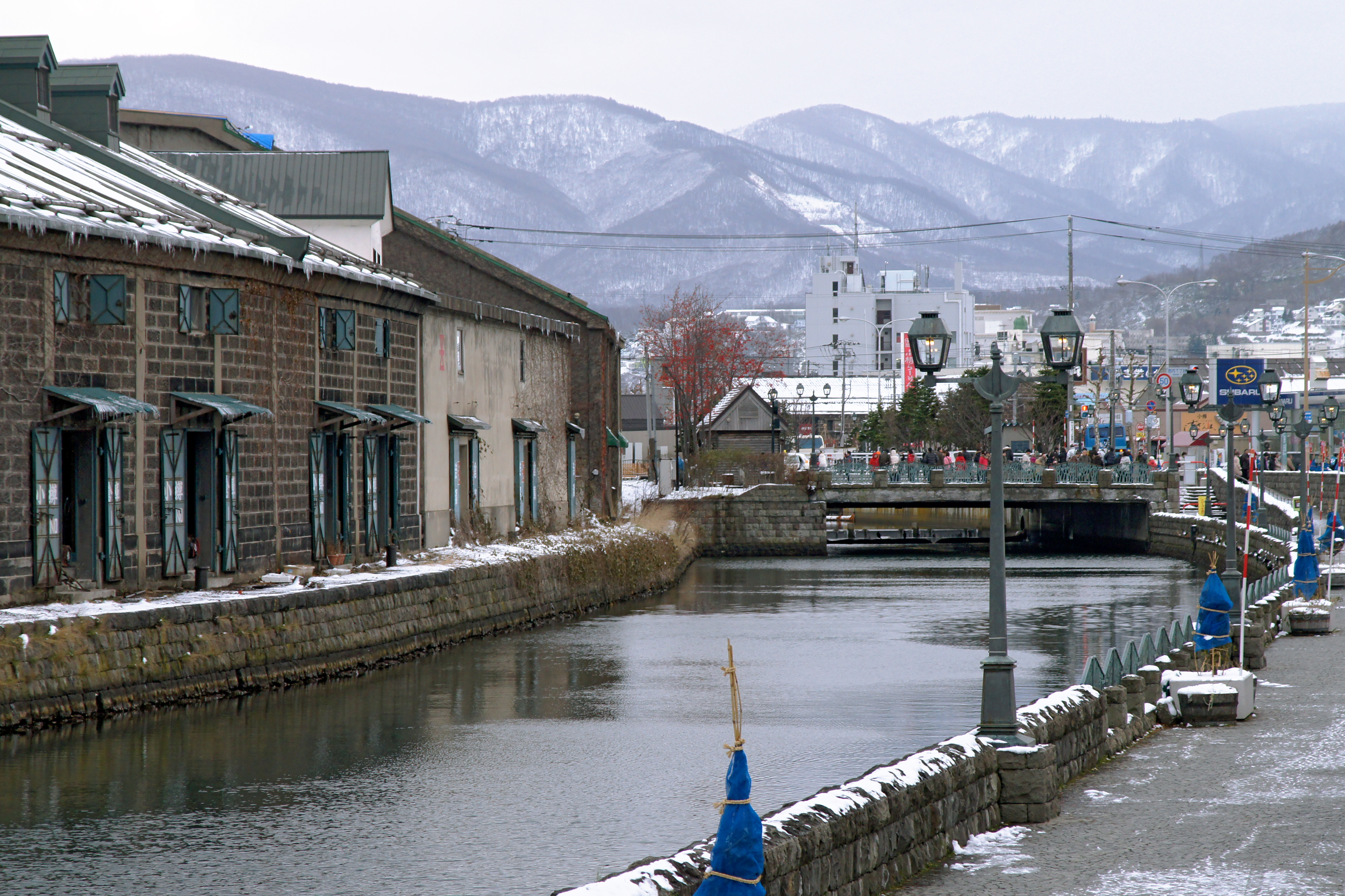 Otaru_Canal in Otaru, Hokkaido prefecture, Japan